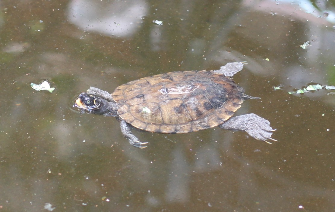 African forest turtle. This image has been originally created as the illustration for at . It has been released under CC-BY-3.0 license.